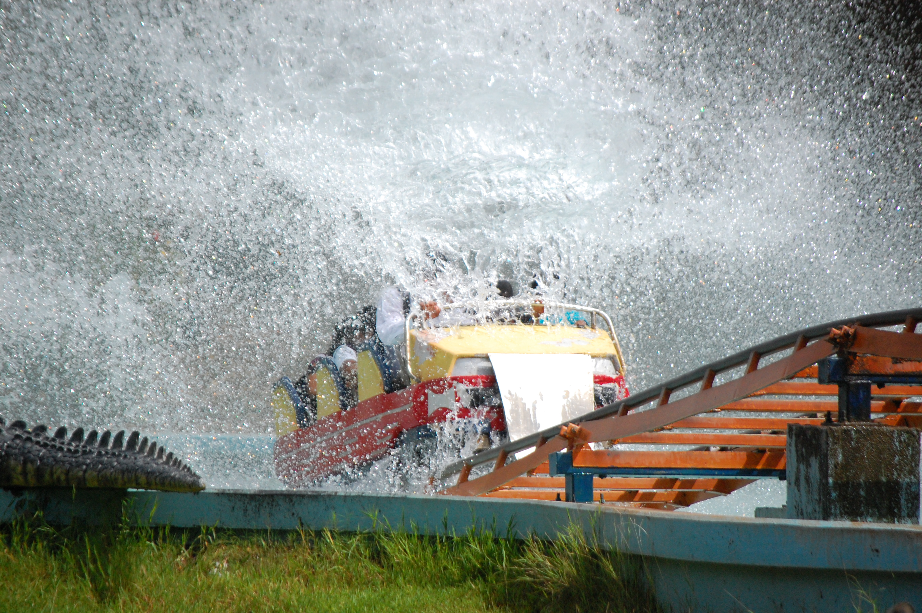 Essel World, Mumbai